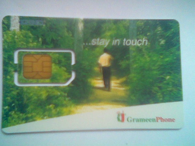 A card with GrameenPhone SIM. Image taken with Nokia6020